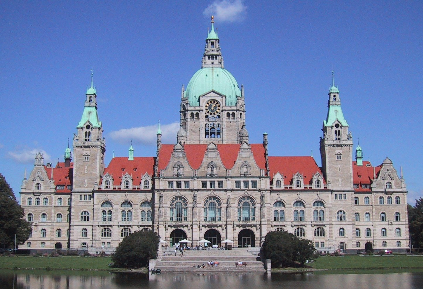 The "new" Town Hall in Hannover was build 1901. This is the "new" Town hall because the old one from the middle age still exists.